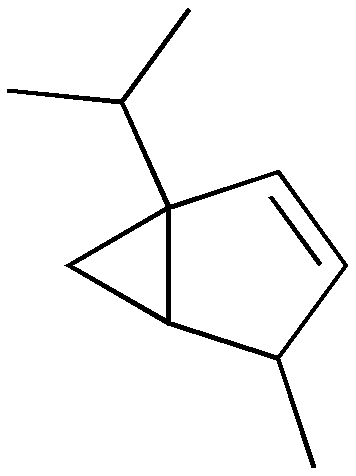 chemical structure of beta-thujene